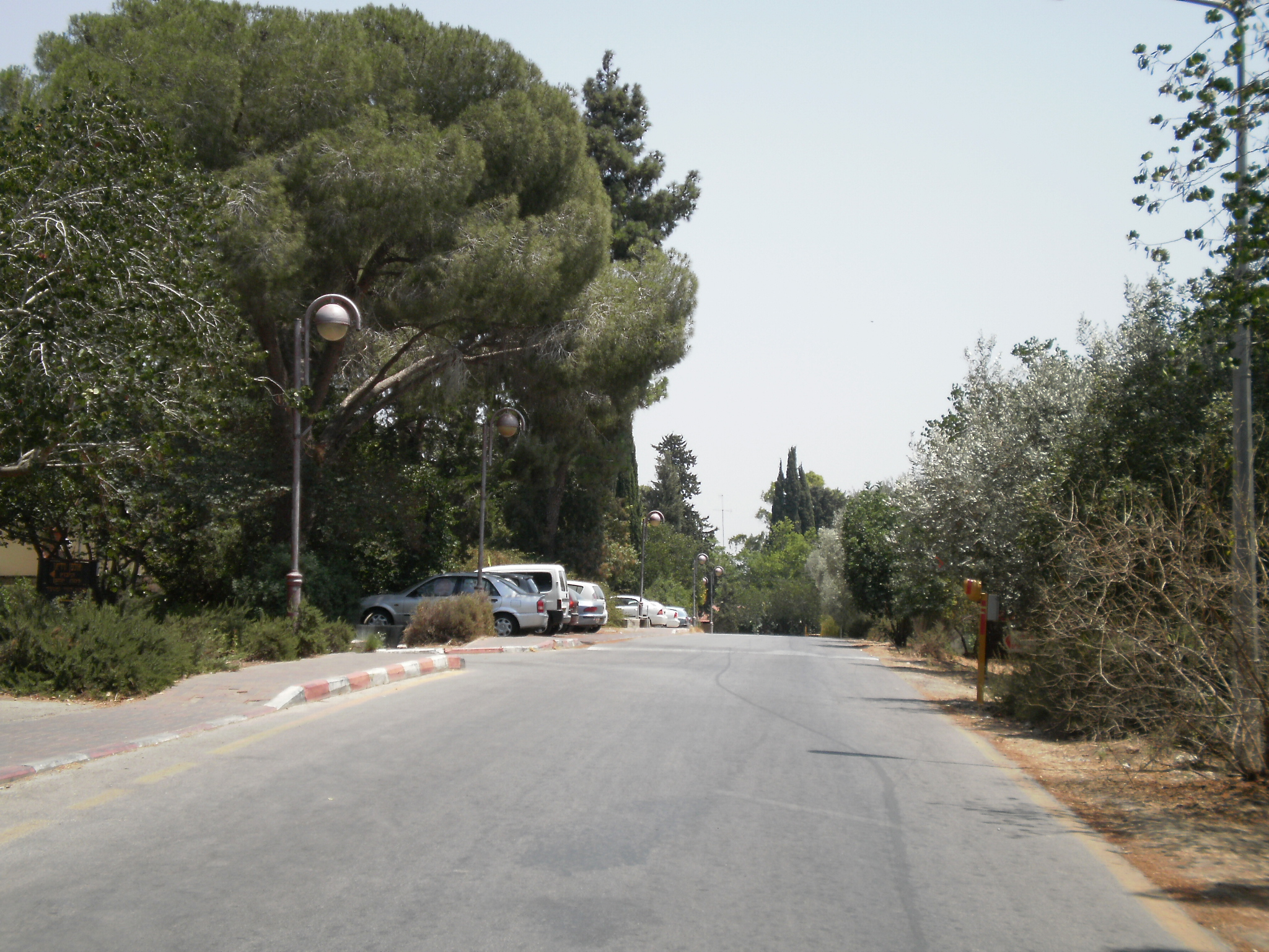 a street in Kibbutz Ramat Yohanan, Zevulun Regional Council, Israel